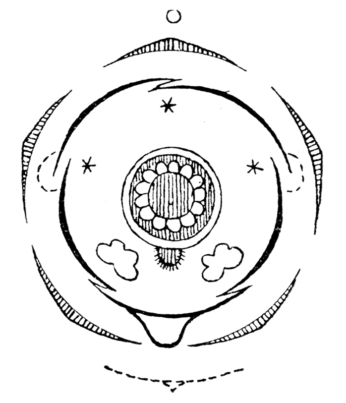 flower diagram of Pinguicula alpina